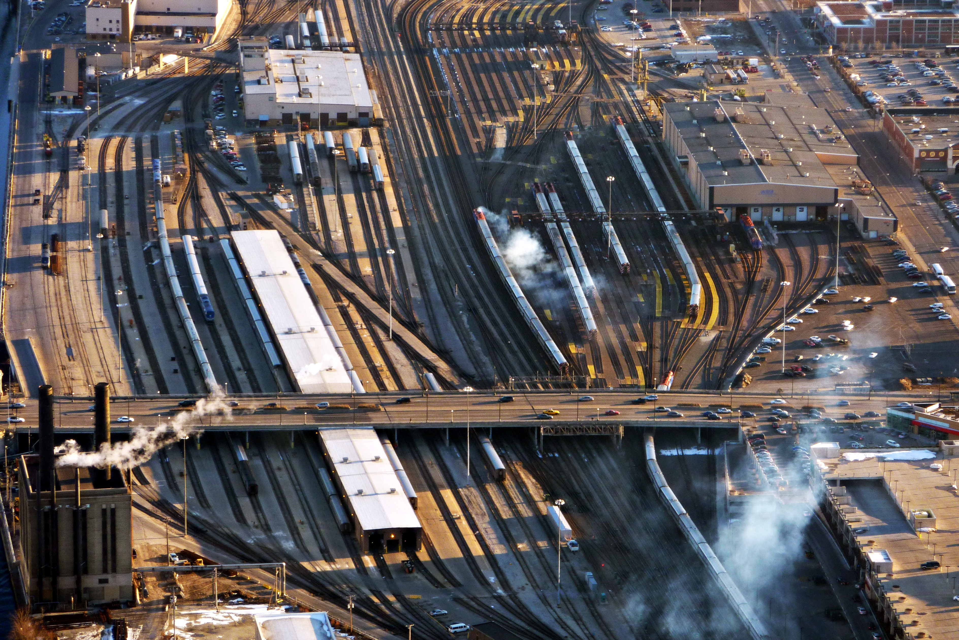 Rail yard as seen from Willis Tower in Chicago, IL, USA.